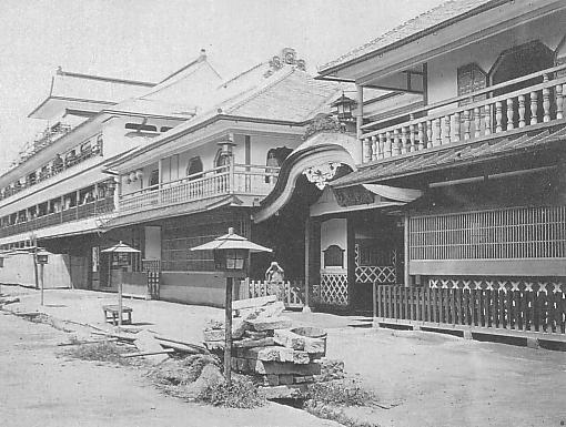 Yoshiwara circa 1872